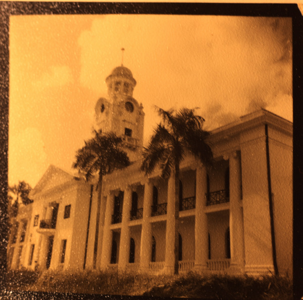 Bell Tower in the 50s